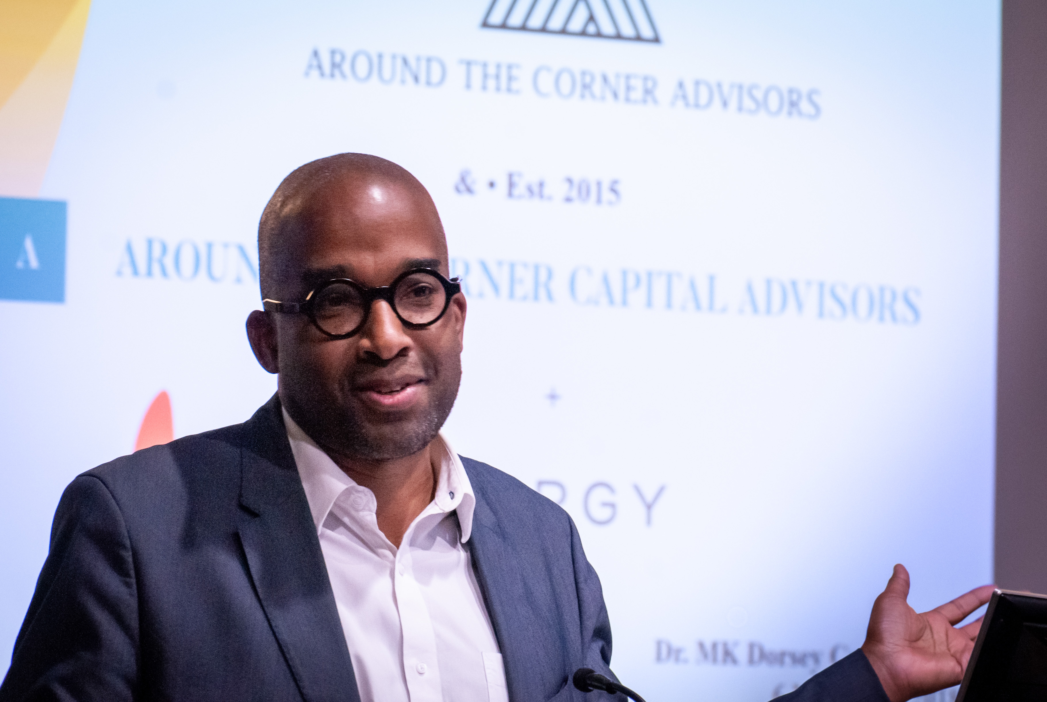 Michael Dorsey in 2018